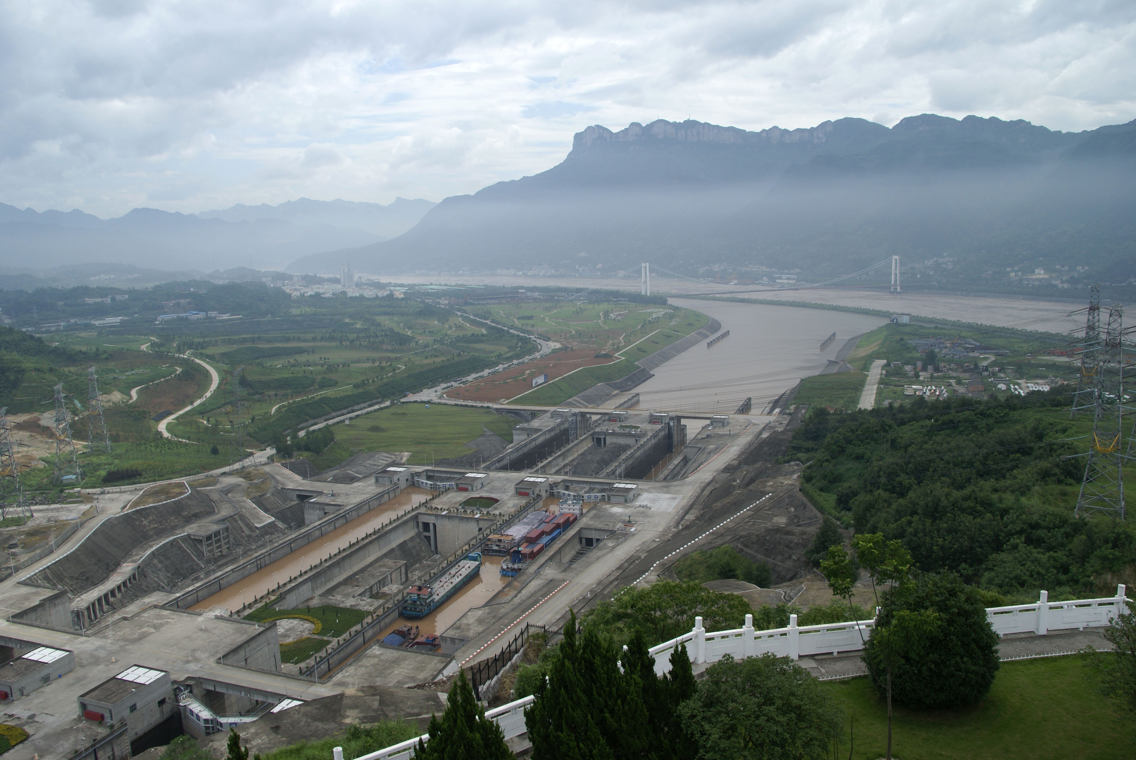 Xiling Yangtze Bridge, connecting Sandouping Town and Letianxia Town in Yiling District, Yichang City, Hubei, China